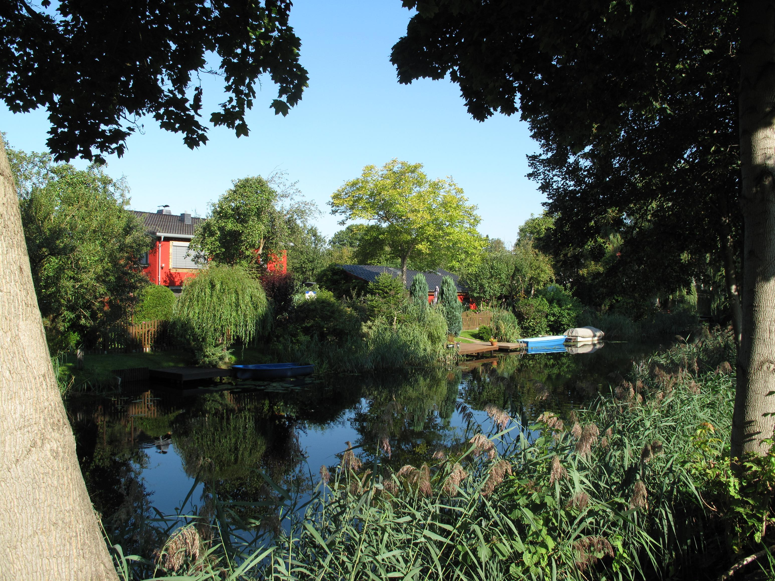 The Katharinengraben in Müllrose. The ditch dewaters the Katharinensee (lake) to the Oder-Spree-Kanal (canal). Müllrose is a town in the District Oder-Spree, Brandenburg, Germany.